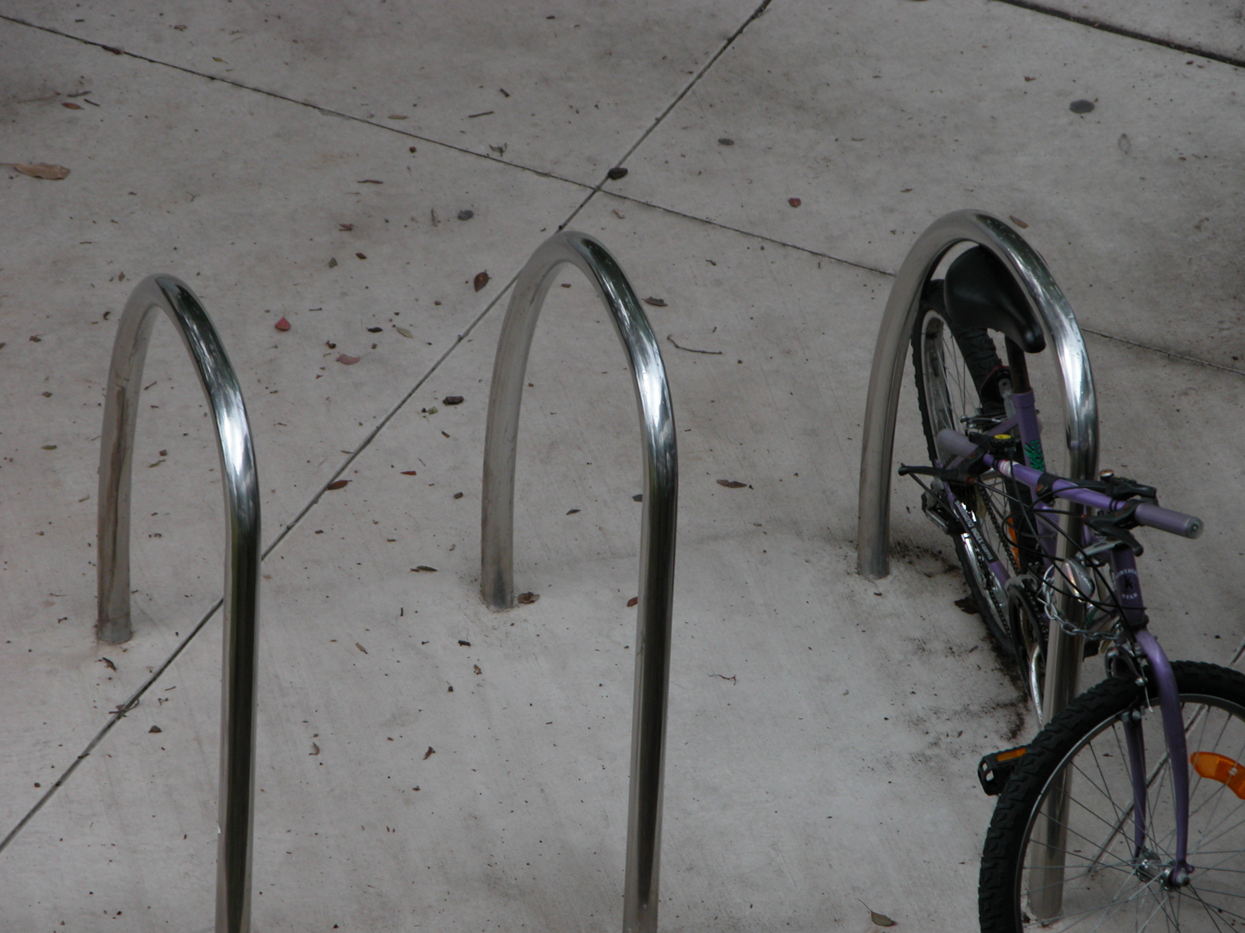 Railway Station Concord West - Bike Rack. Author: Stephen Frede